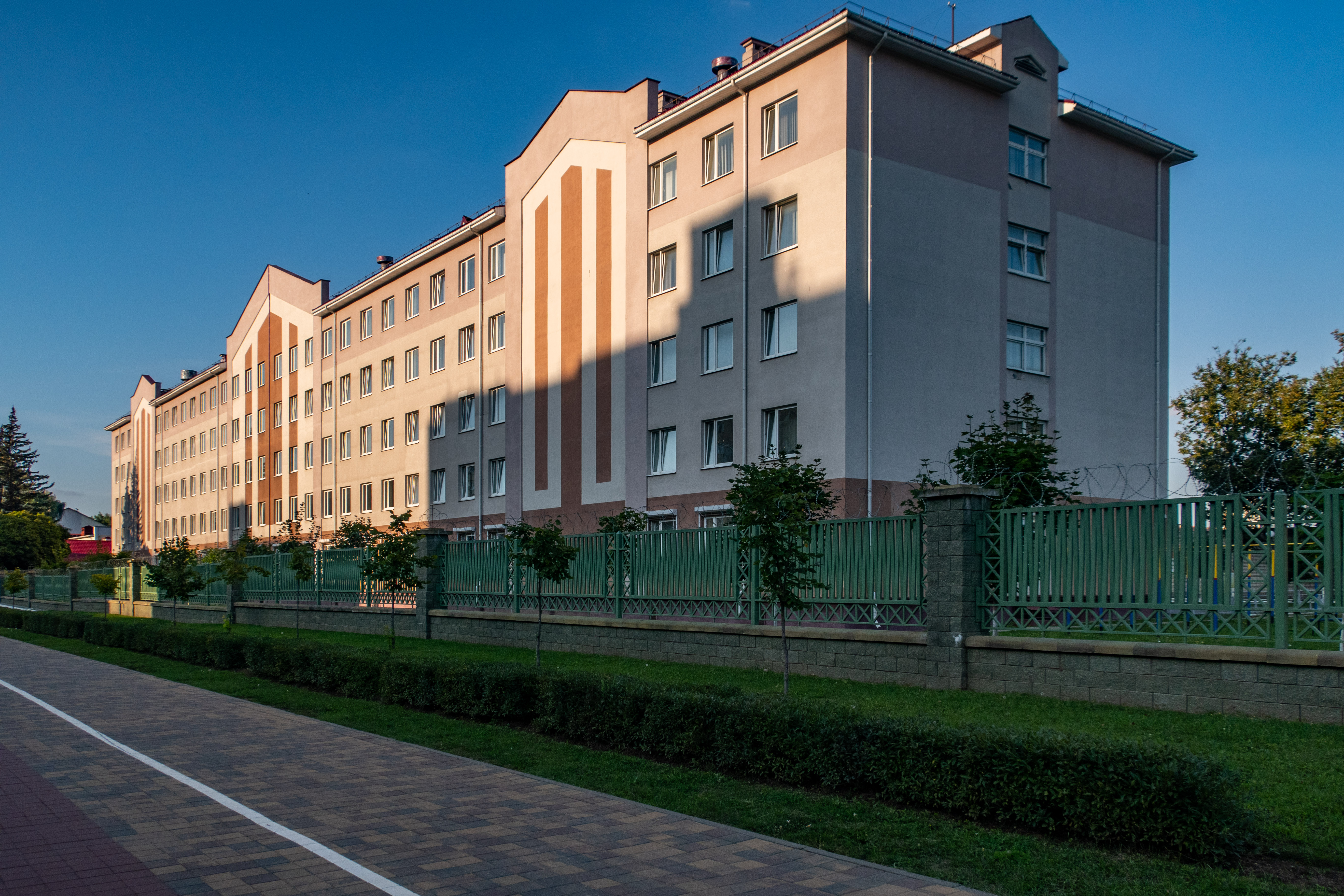 Belarusian internal troops base: 1st special militia brigade, 5448. Majakoŭskaha street. Minsk, Belarus